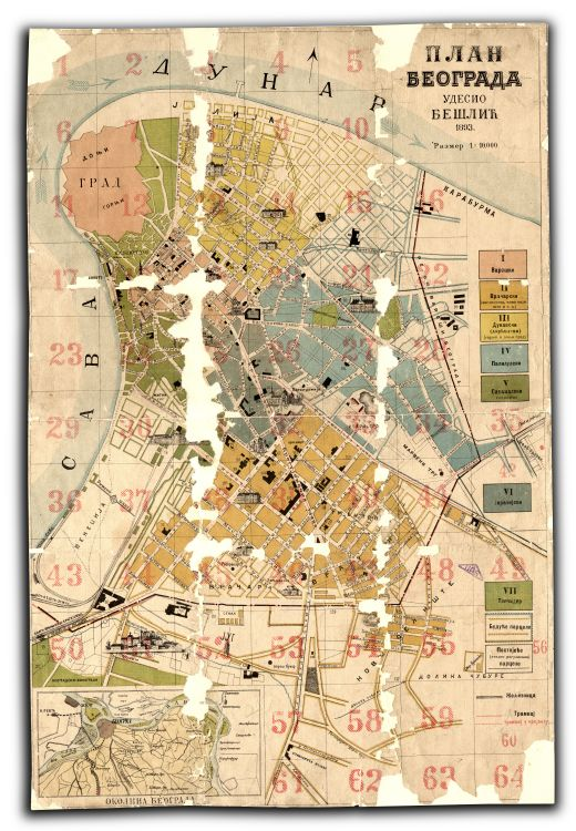 Beograd, 1893 - City planCatalog mark: ZPM, I A